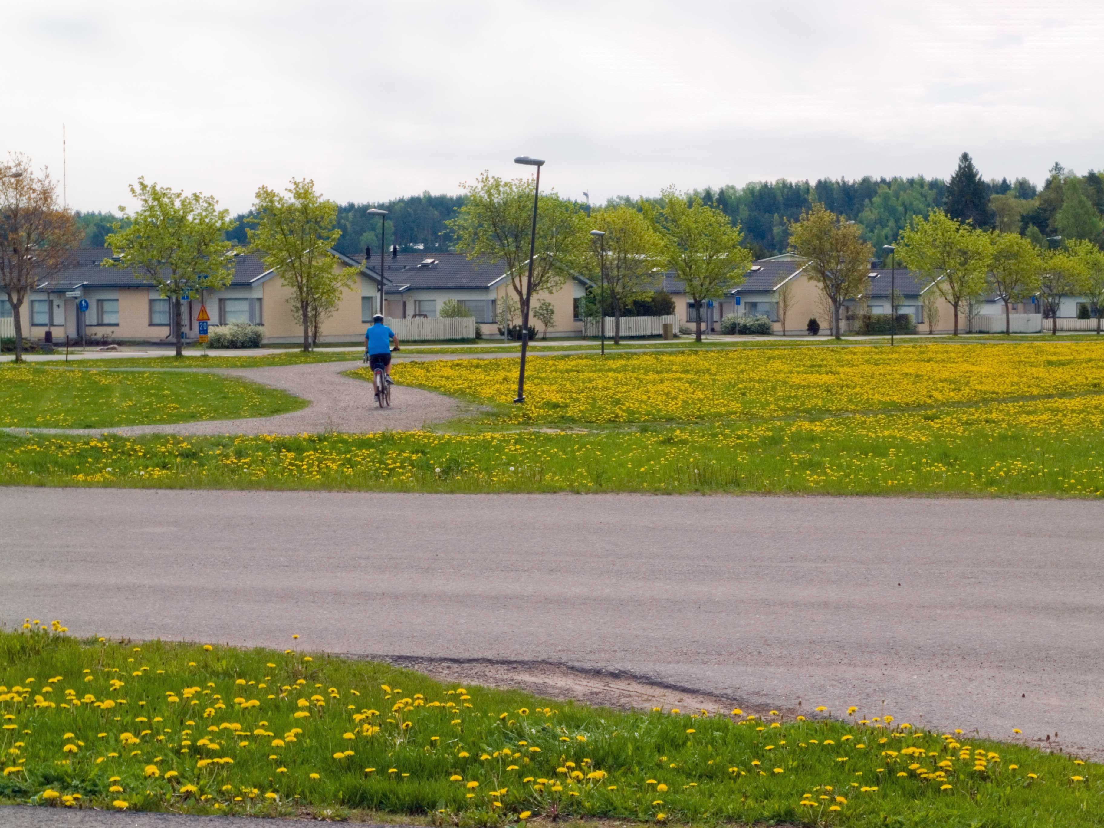 Intersection of Kartanontie and Uimarannantie in Hovirinta, Kaarina, Finland. May 2014.